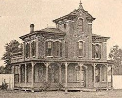 The first Orange County jail was made of brick and sat on Orange Avenue. Wooden scaffolding beside the jail was used for hanging prisoners sentenced to death. This jail was used until 1884 on the corner of Orange Avenue and Washington Street at the cost of $10,700. The new jail (pictured) was an imposing structure with a high picket fence enclosing an exercise yard for the inmates and an occasional old-fashioned hanging. In 1917, it was sold for $17,500 and torn down in 1919. Information source:"Corrections Division Observes 125 Years of Jail Operations" by Bob Moffett, Suzanne Richey with research assistance by Yvonne Ball, Orange Spiel, June 1998